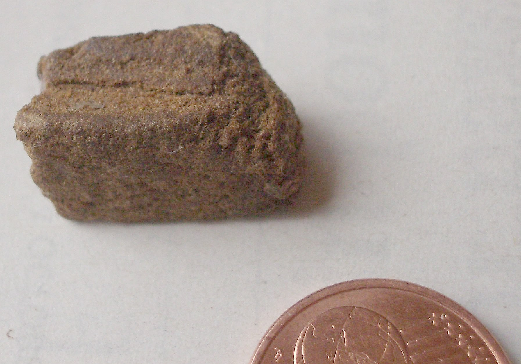 EN A small piece of Hashish, obtained in Paris. FR Un petit morceau du Haschisch, obtenu à Paris.